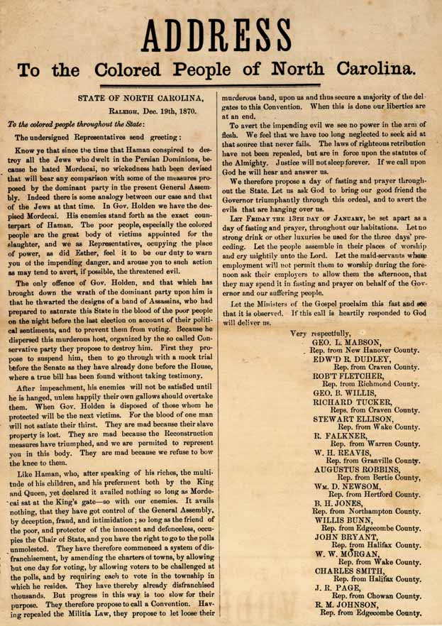 Printed broadside signed by 17 members of the North Carolina House of Representatives (presumably African-Americans) warning of the perils of an attempt to remove Republican Governor William Woods Holden from office. Gov. Holden had attempted a crackdown on the Ku Klux Klan, most notably in Alamance and Caswell counties. Holden later became the second American governor to be impeached, and the first to be removed from office.